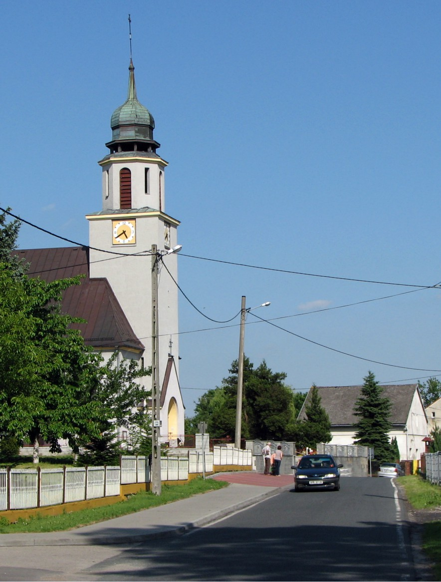 Rudyszwałd